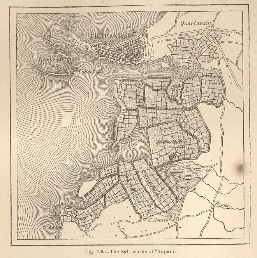 Salt-works of Trapani Subject: Trapani (Italy)--Maps, Salt industry and trade--Italy--Maps Geographic Subject: Italy--Trapani Tag: Coasts